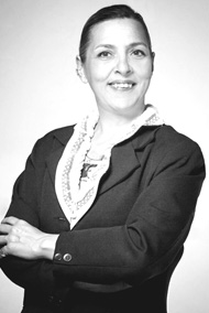 Ballerina of the Serbian National Theatre Srpski (latinica): Balerina Srpskog narodnog pozorišta Српски (ћирилица): Балерина Српског народног позоришта